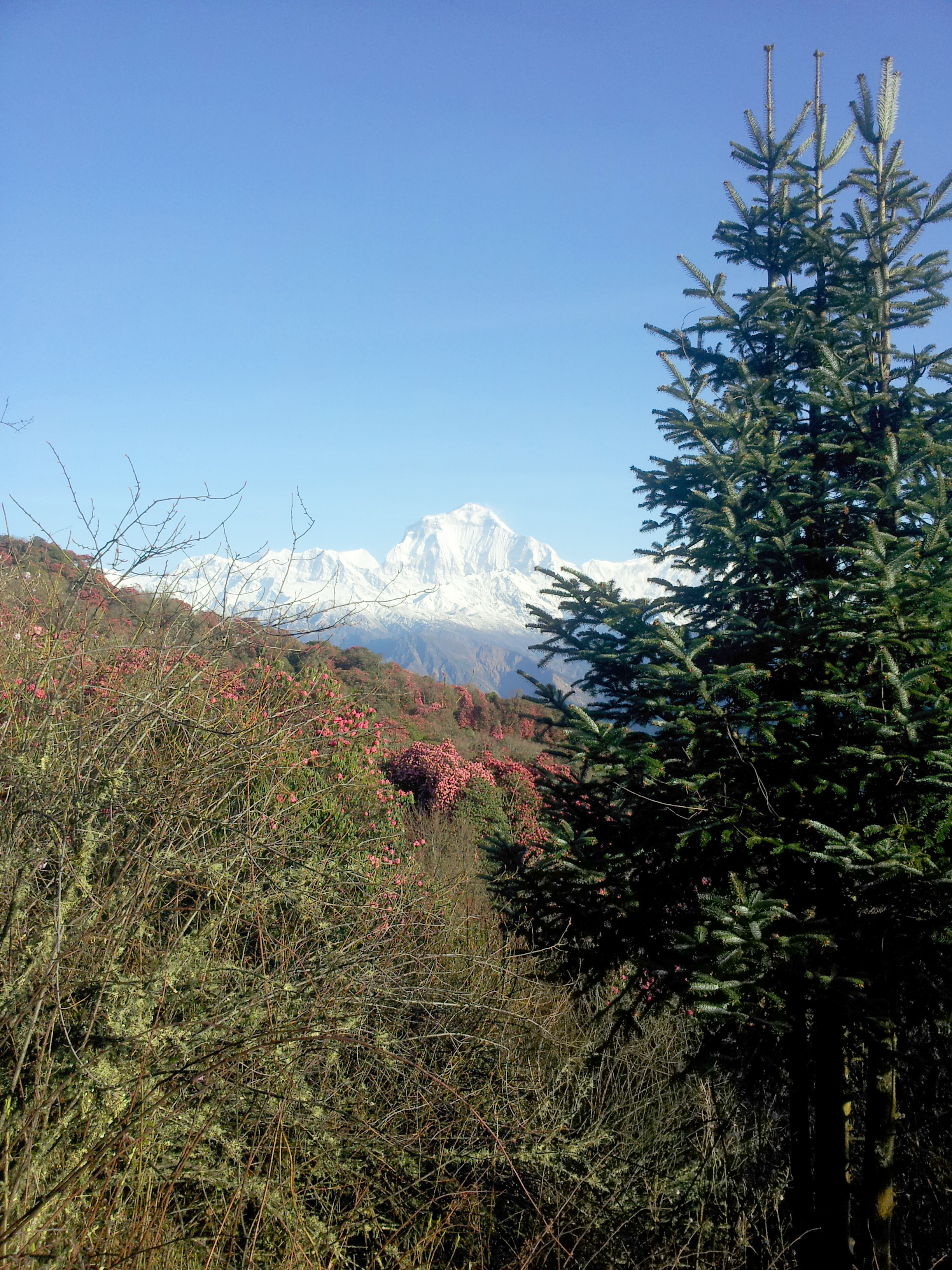 It one of the most amazing mountain of Nepal. It has added beauty to Nepal. Th height of this mountain is 8,167m.